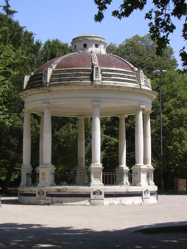 Lleida (Spain)